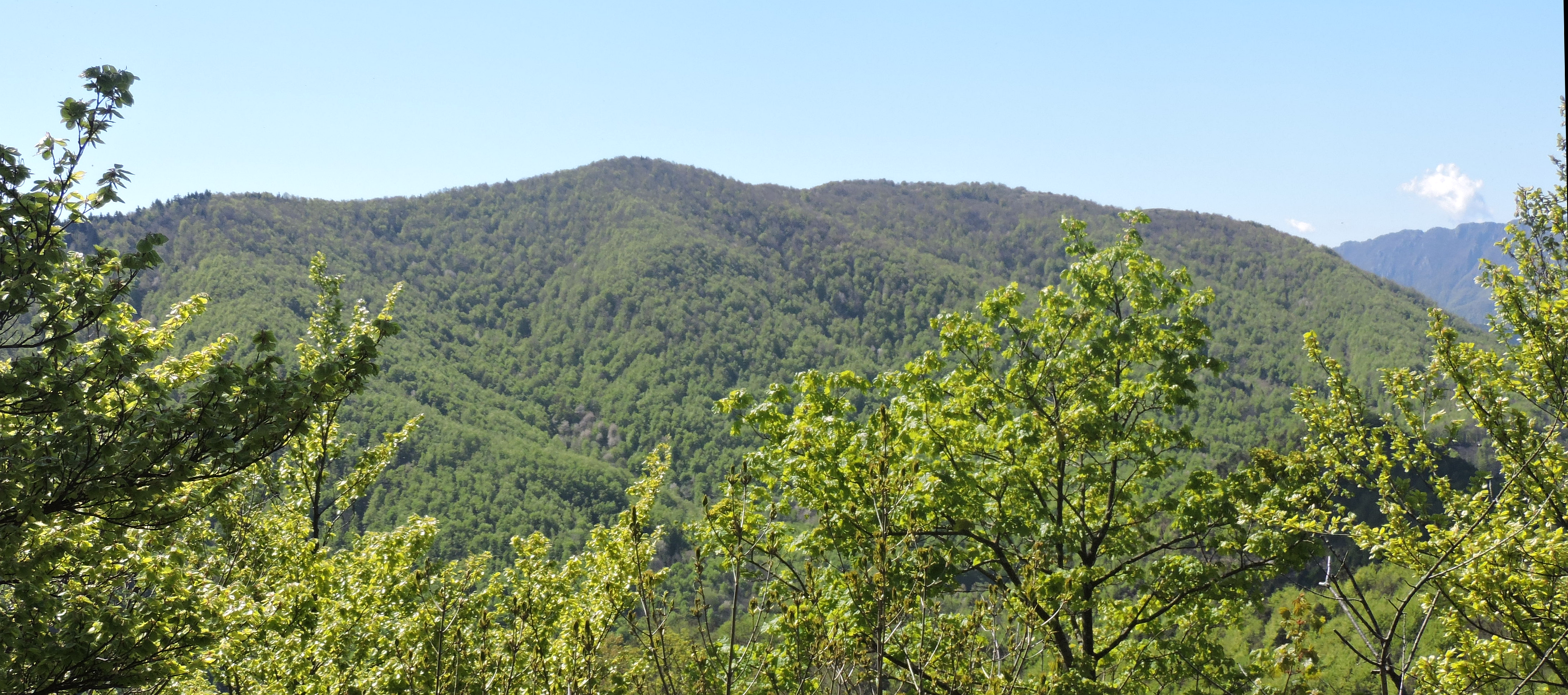 Monte Spinarda from Monte Sotta ridge (Ligurian Prealps)